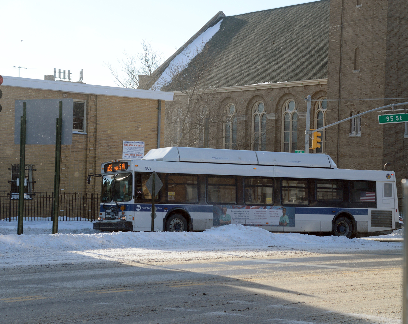 MTA New York City Transit in operation on Wed., January 22, 2014, the morning after more than a foot of snow fell on the region. The B63 makes its way up 5th Ave. in Brooklyn. Photo: Marc A. Hermann / MTA New York City Transit